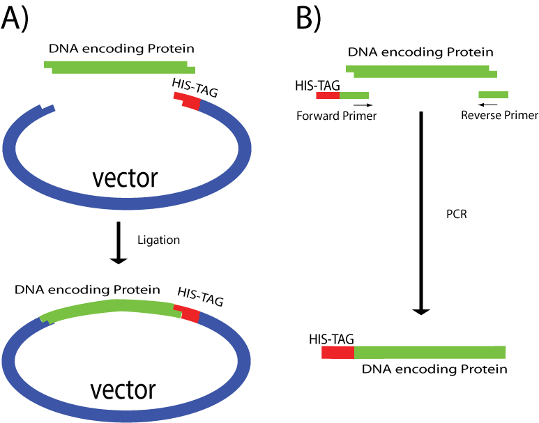 Adding polyhistidine tags. A) The His-tag is added by inserting the DNA coding a protein of interest in a vector that has the tag ready to fuse at the C-terminal. B)The His-tag is added using primers containing the tag, after a PCR reaction the tag gets fused to the N-terminal of the gene. AAAsBiophysics 20:29, 17 July 2007 (UTC)